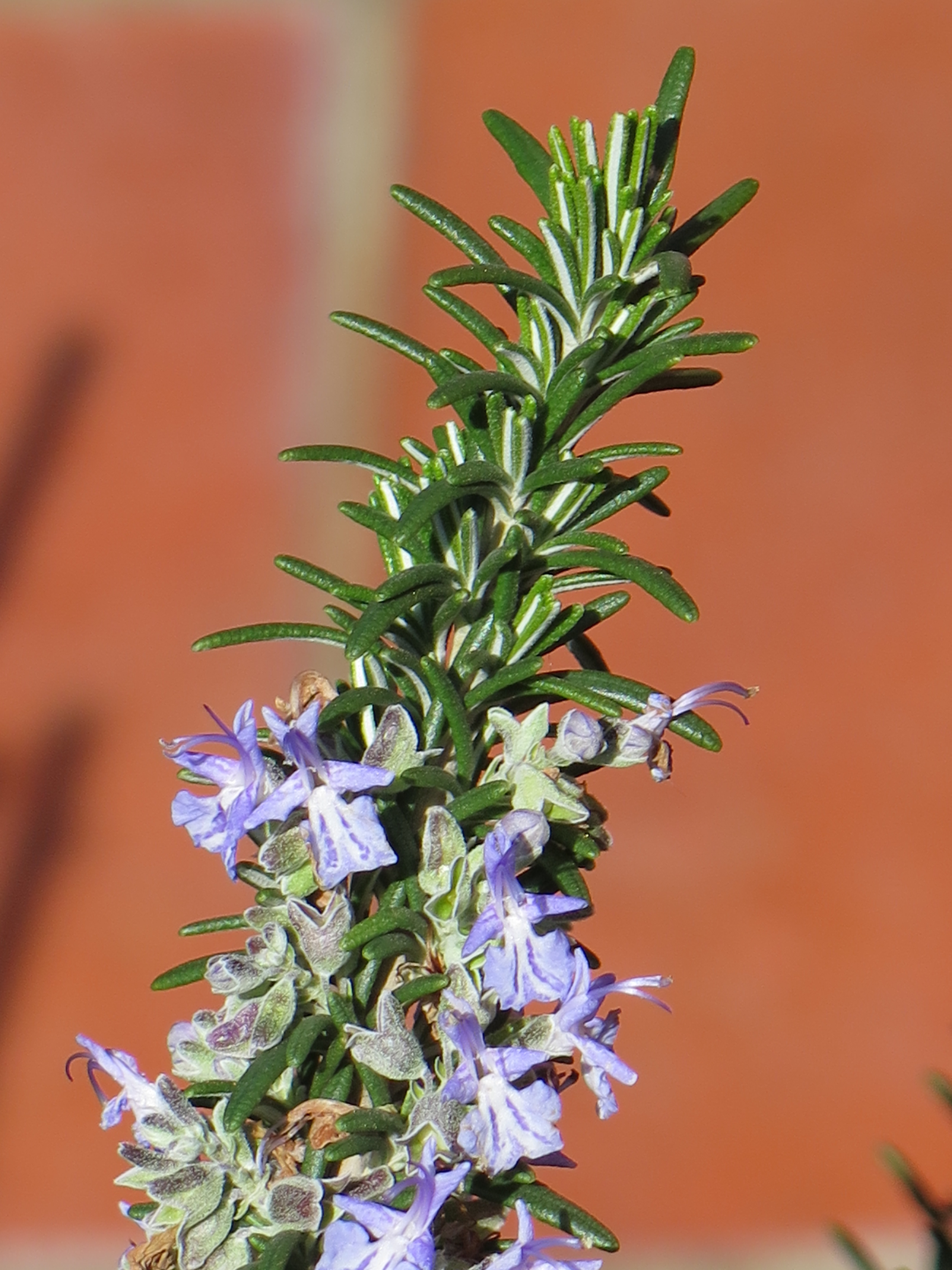 Flowers of rosmarinus officinalis